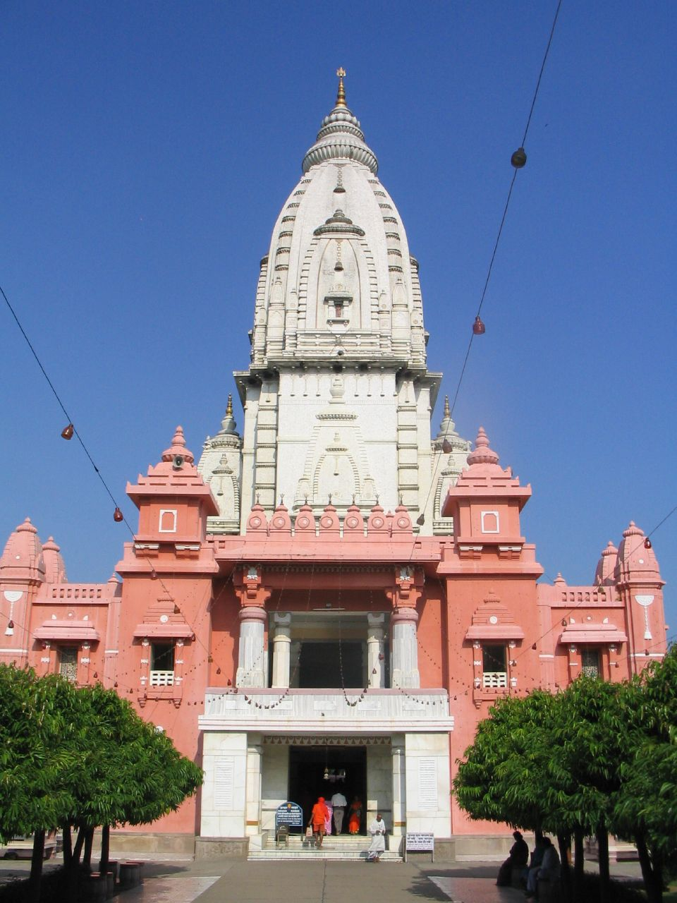 New Vishwanath Temple also known as Birla Mandir, planned by Madan Mohan Malviya and built by the Birla family.